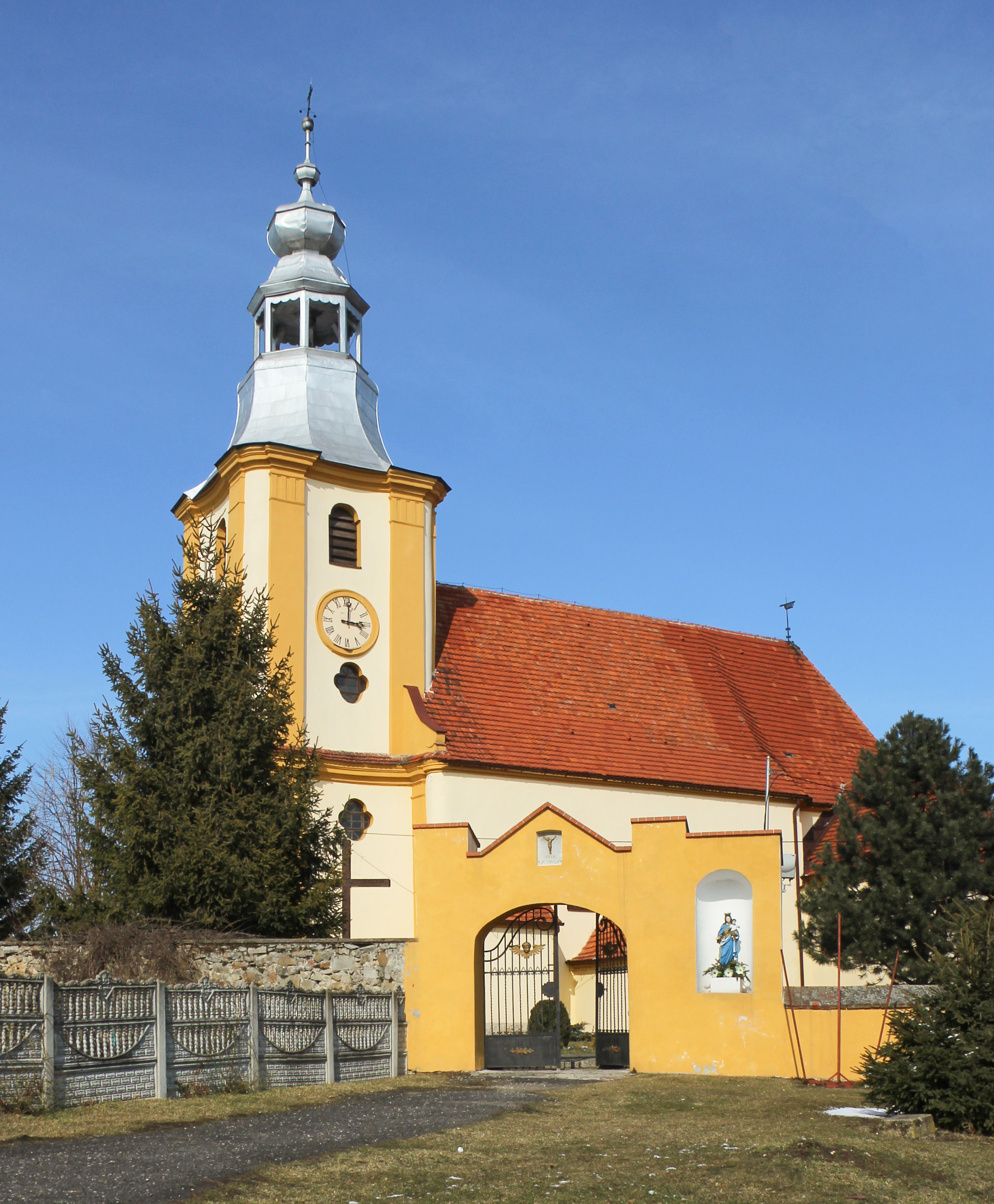 Church of Catherine of Alexandria in Łąka, Poland.